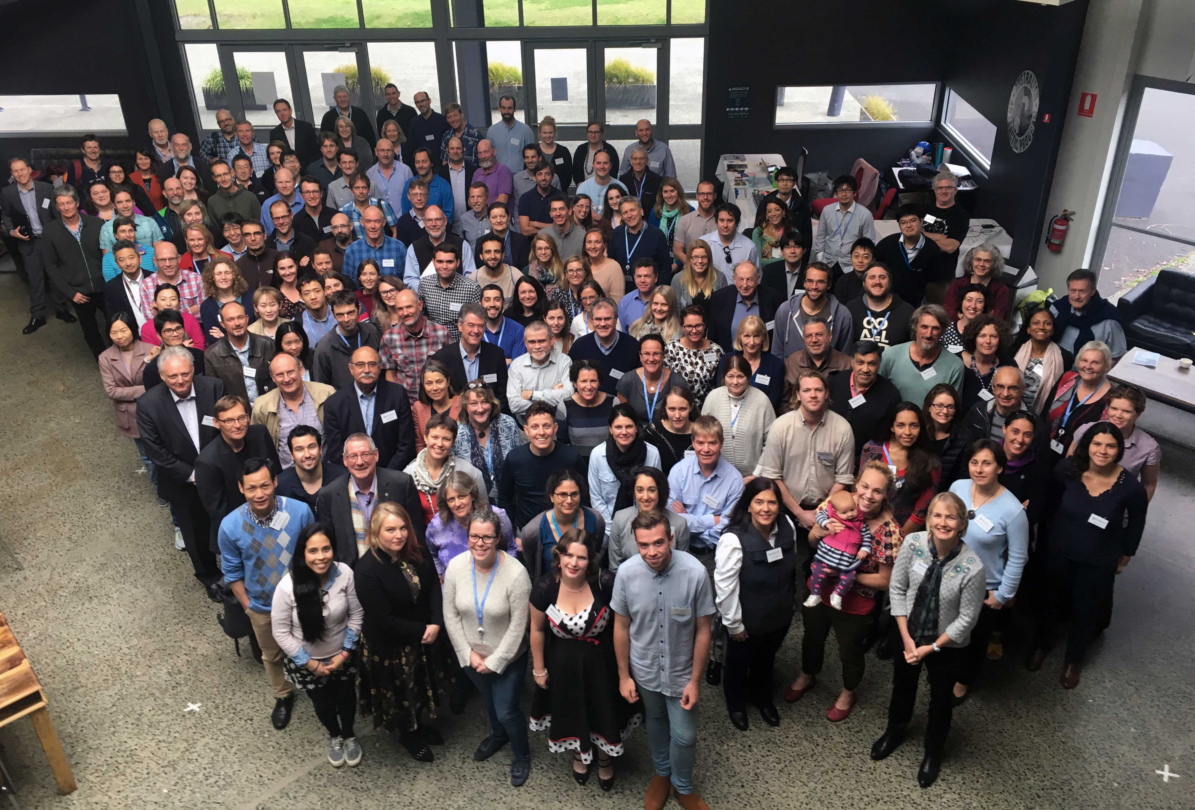 Participants of the MEASO 2018 conference